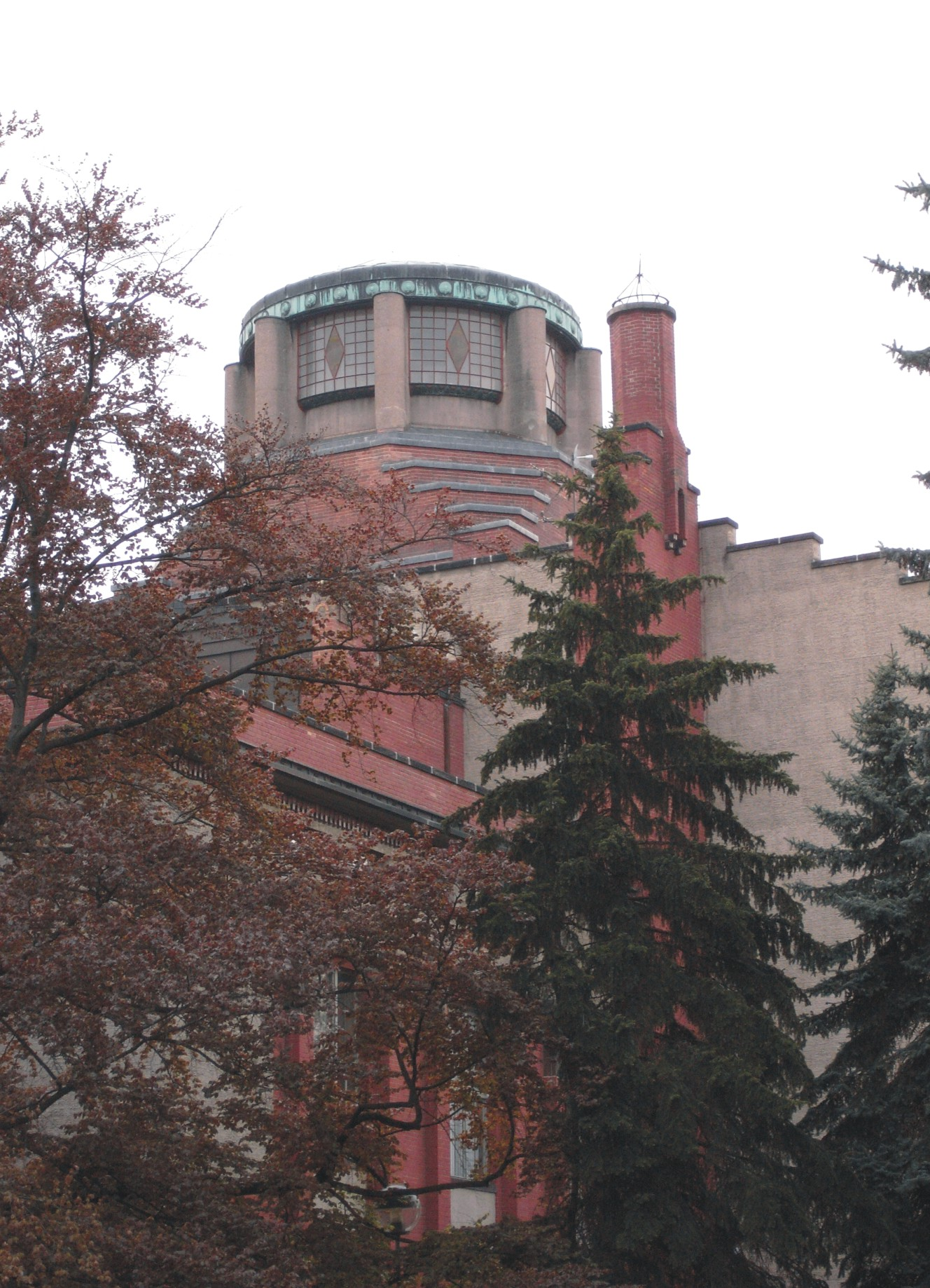 Hradec Králové - Museum of Eastern Bohemia